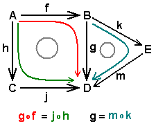 Made by Romero Schmidtke